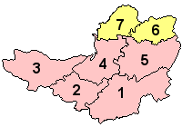 Somerset districts. Based on released with "Permission is granted to copy, distribute and/or modify this document under the terms of the GNU Free Documentation License"